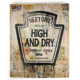 Painting by Sket One for Night & Day at My Plastic Heart